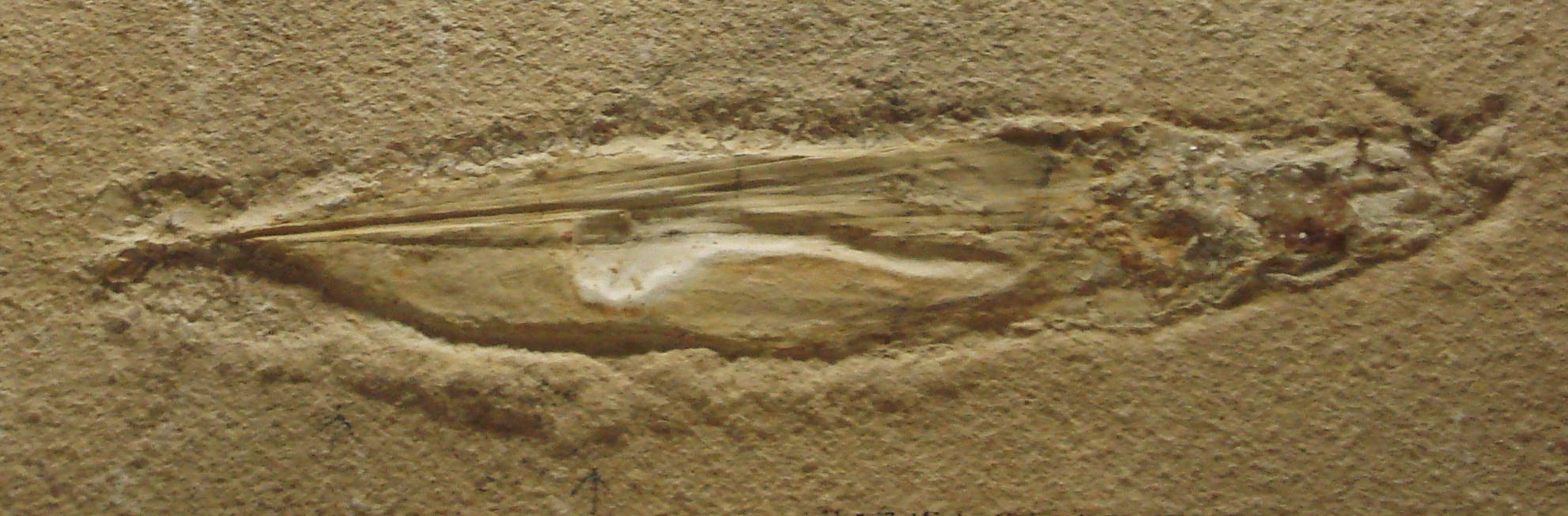 Fossil of Plesioteuthis prisca